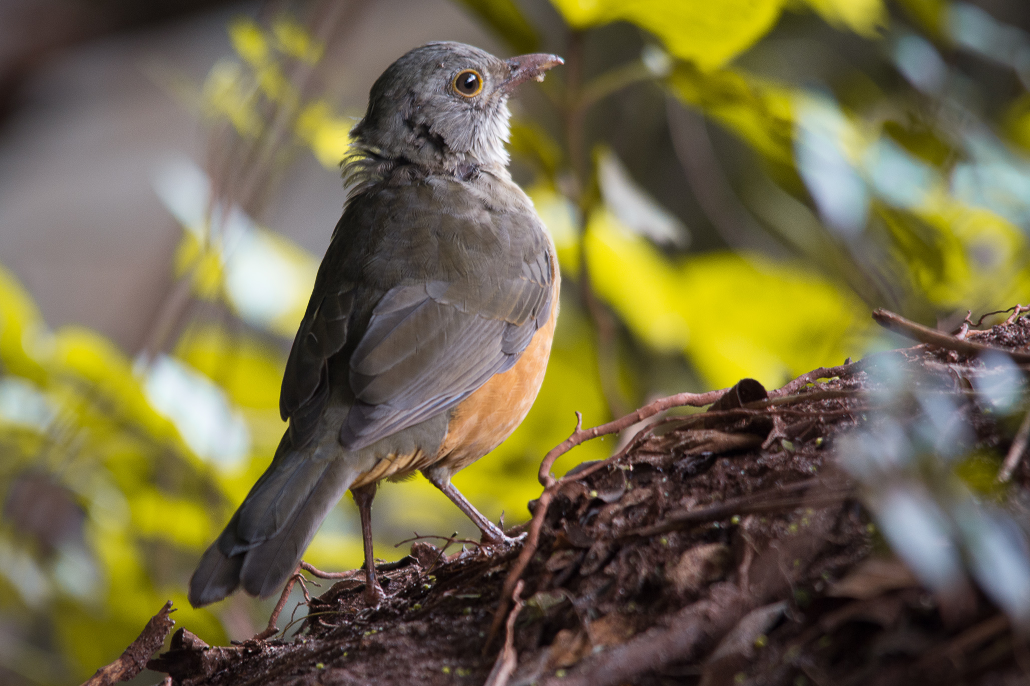 Rufous-bellied Thrush Turdus rufiventris at Parque Linear do Imbirussu, Campo Grande, MS, Brazil